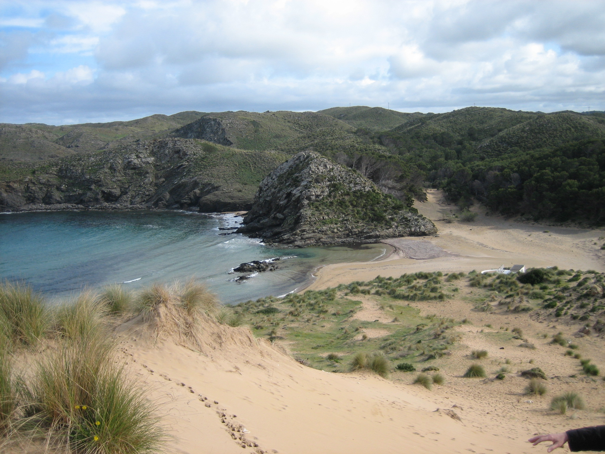 Beach of Mongofre, Minorca.